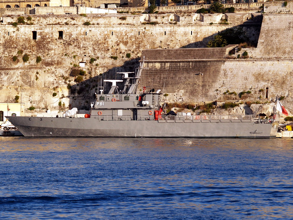 Diciotti class Patrol Boat P-61